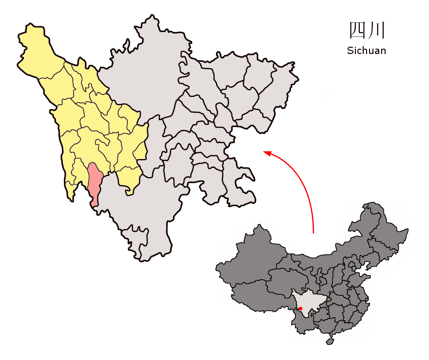 Location of Daocheng County (pink) and Garzê Prefecture (yellow) within Sichuan province of China Map drawn in september 2007 using various sources, mainly : Sichuan province administrative regions GIS data: 1:1M, County level, 1990 Sichuan Counties map from